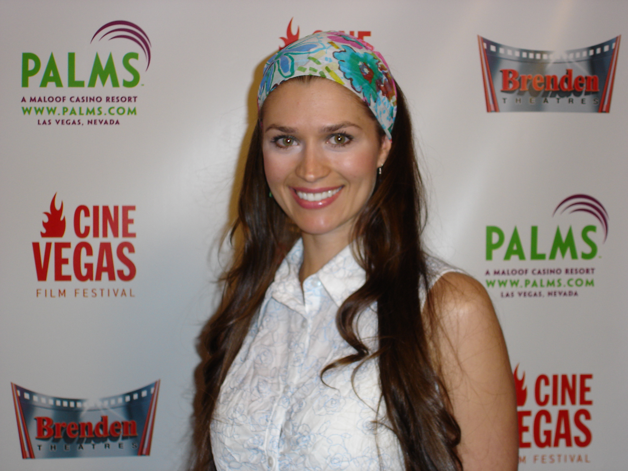 Ashley Tesoro